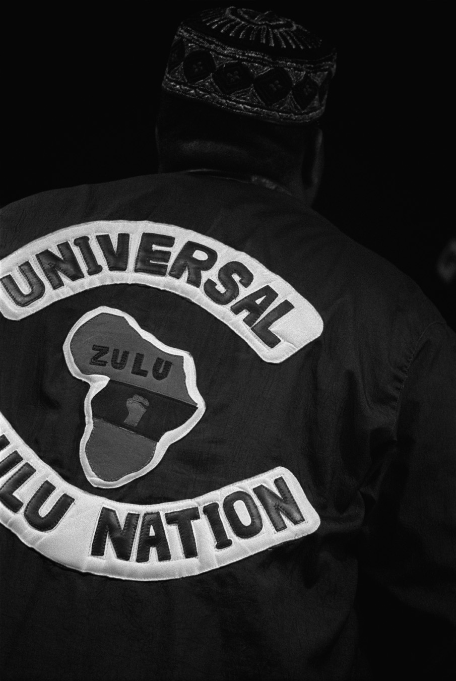 Holland 1998